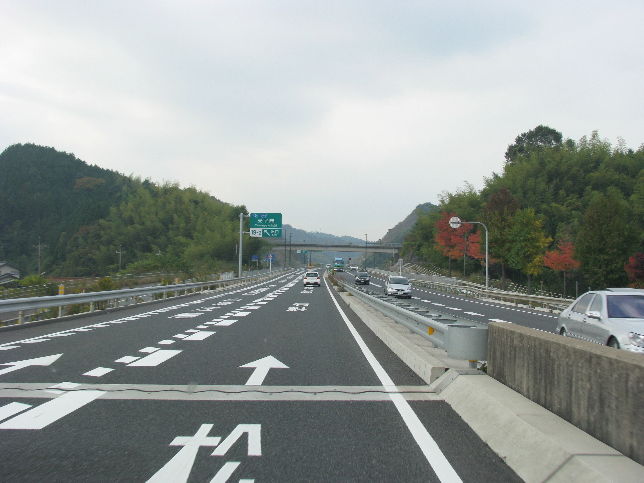 The Sanin Expressway. This place is Yonago, Tottori Prefecture, Japan.